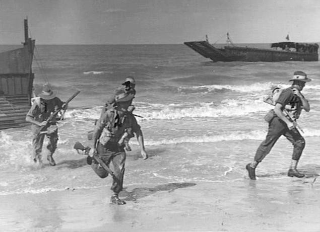 Troops from the 2/28th Battalion conducting an exercise at Palm Beach, Queensland, August 1944